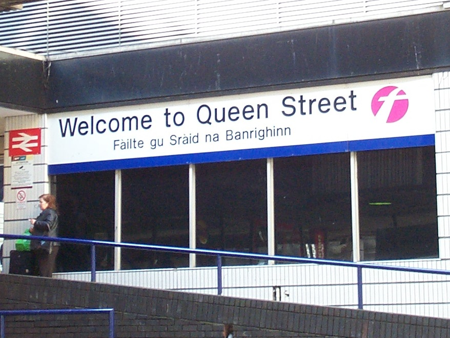 "Welcome to Queen Street"; Gaelic: "Fàilte gu Sràid na Banrighinn".